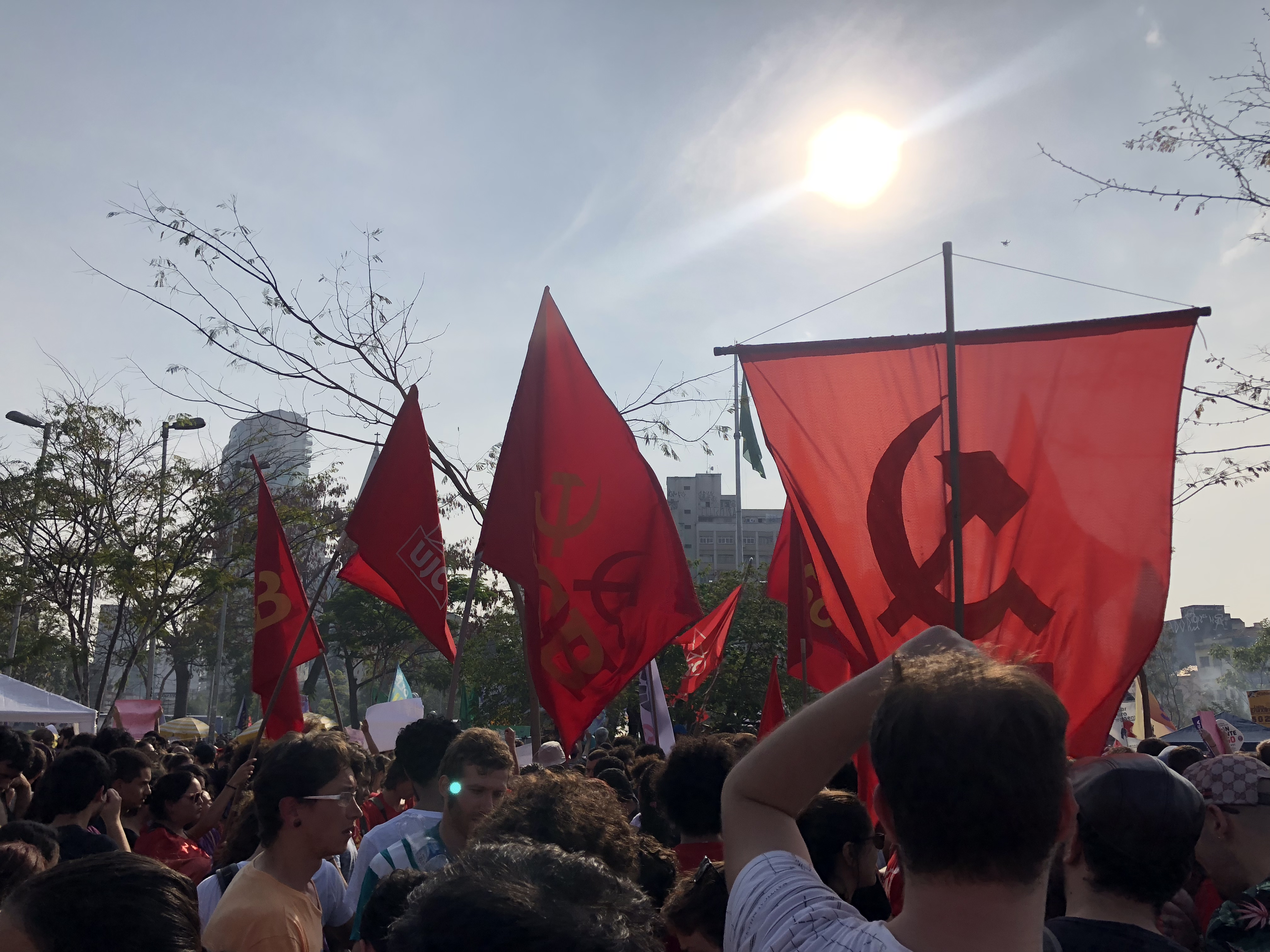 Demonstration against presidential candidate Jair Bolsonaro at Largo da Batata in São Paulo city, Brazil. 29 September 2018.